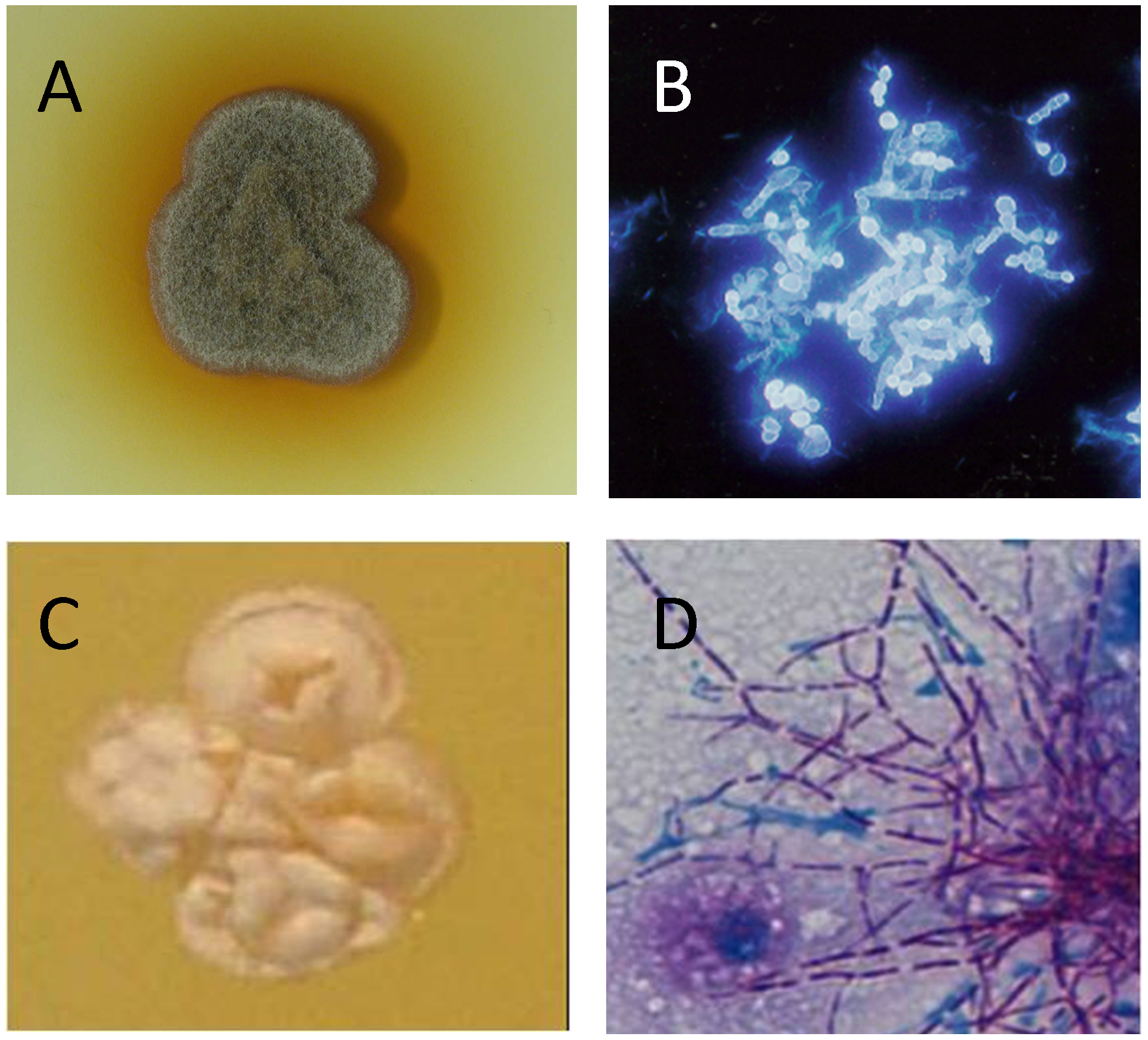 A: Madurella mycetomatis grown on sabouraud agar. B: Microscopic appearance of Madurella mycetomatis stained with calcofluor white. C: N. brasiliensis colony. D: Microscopic appearance of N. brasiliensis